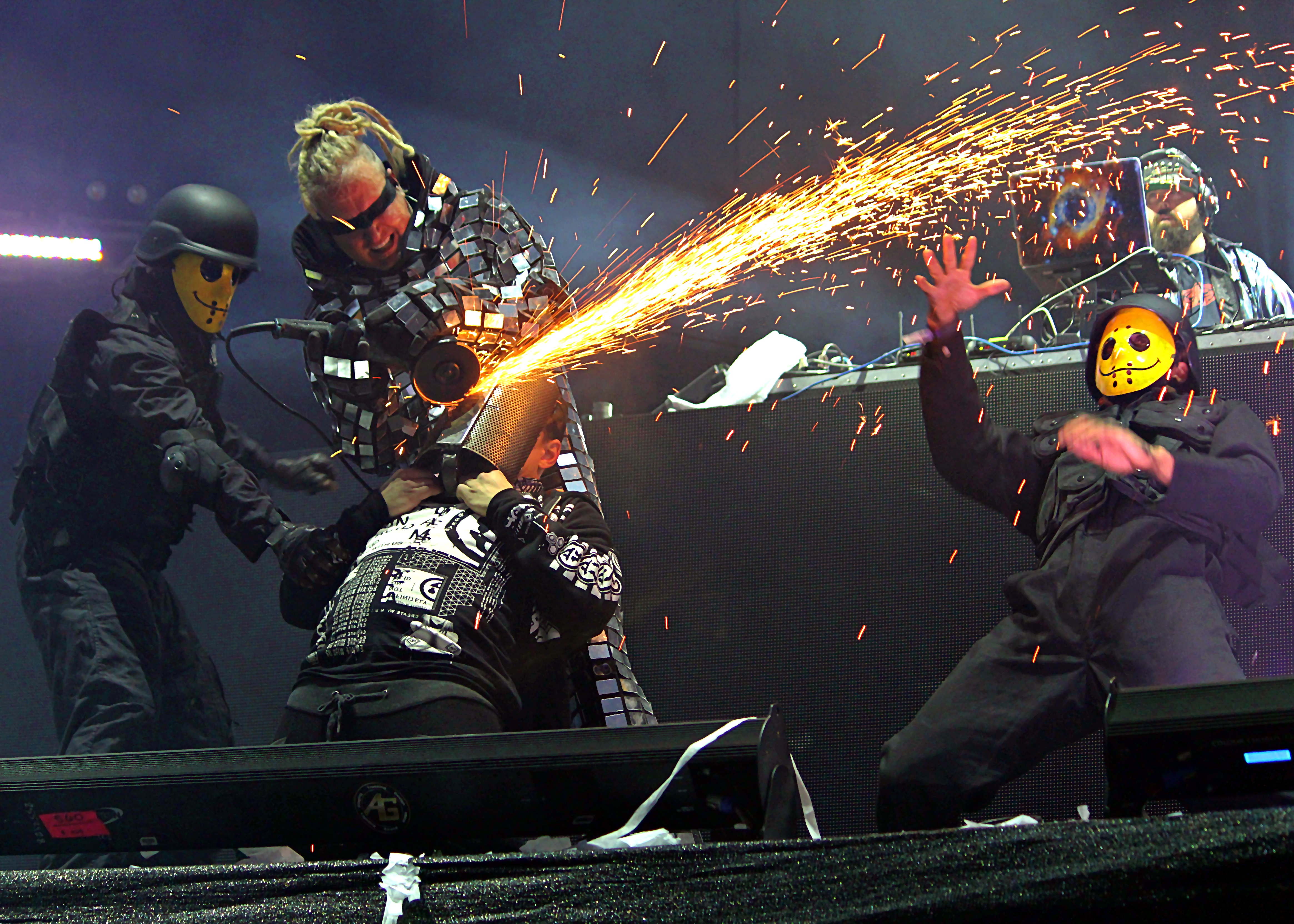 conjeo de la luna